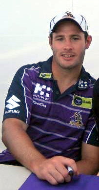 Brett White with a fan (edited out)